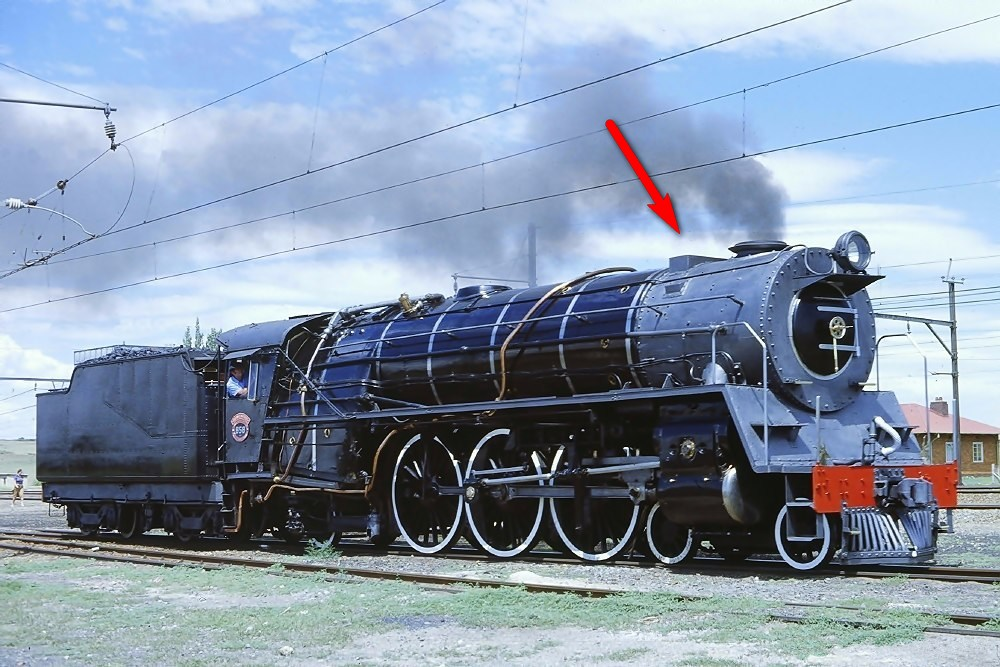 SAR class 16E at Vetrivier station, South Africa; 1979-11-05. The loco shown is 16E 858, a 'Pacific' type high speed steam locomotive fitted with a Watson 3A boiler. The red arrow points to the regulator cover behind the chimney, which is typical for the Watson standard boilers.